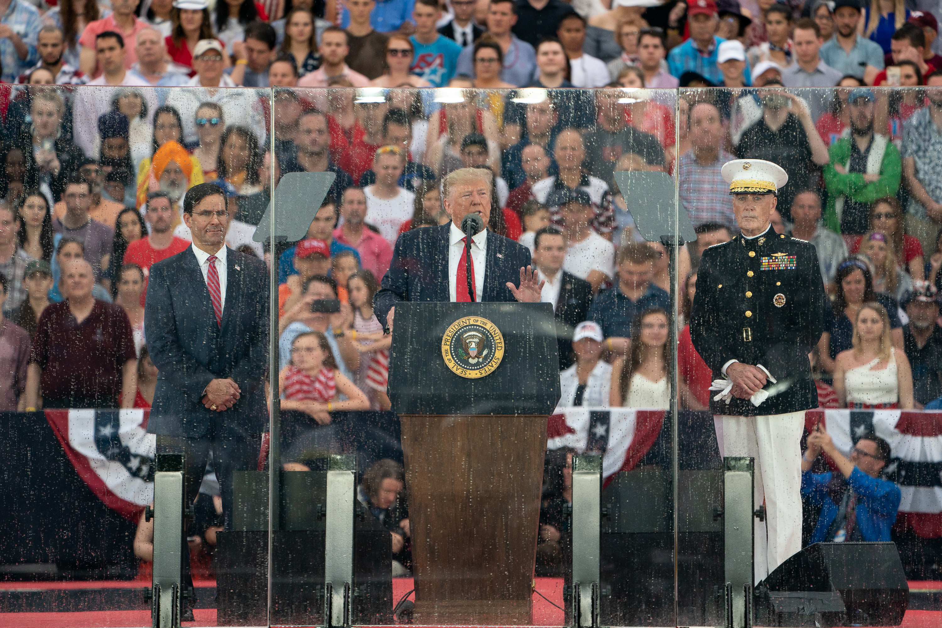 President Donald J. Trump addresses his remarks at the Salute to America event Thursday, July 4, 2019, at the Lincoln Memorial in Washington, D.C. (Official White House Photo by Joyce N. Boghosian)